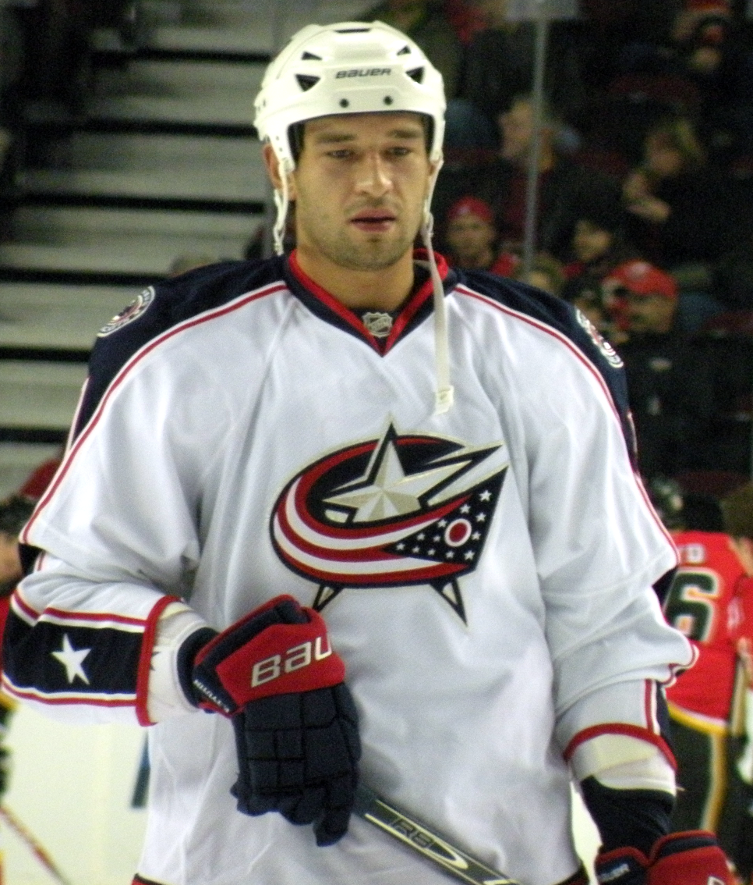 Columbus Blue Jackets defenceman Fedor Tyutin prior to a National Hockey League game against the Calgary Flames, in Calgary